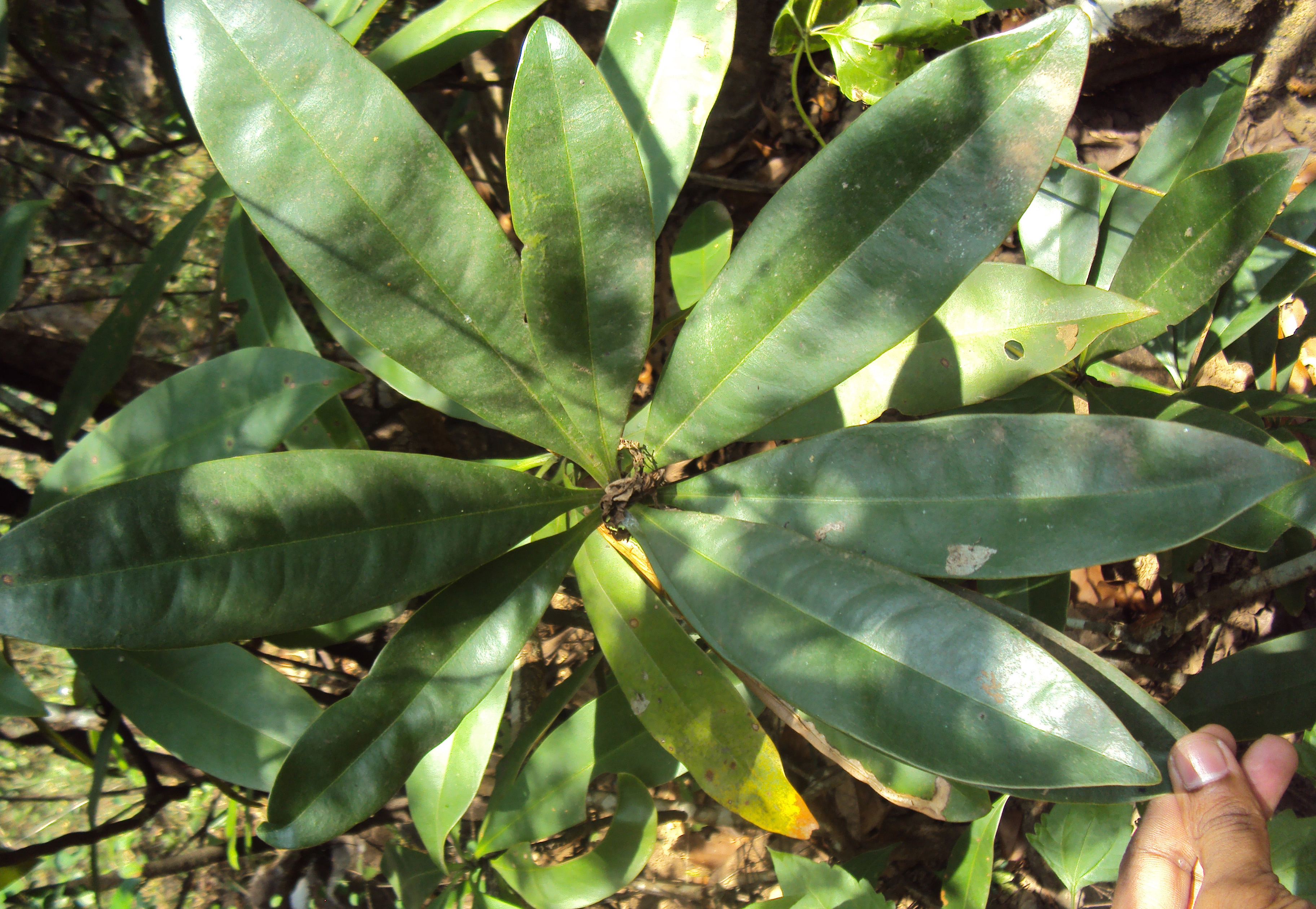 Ancistrocladus heyneanus